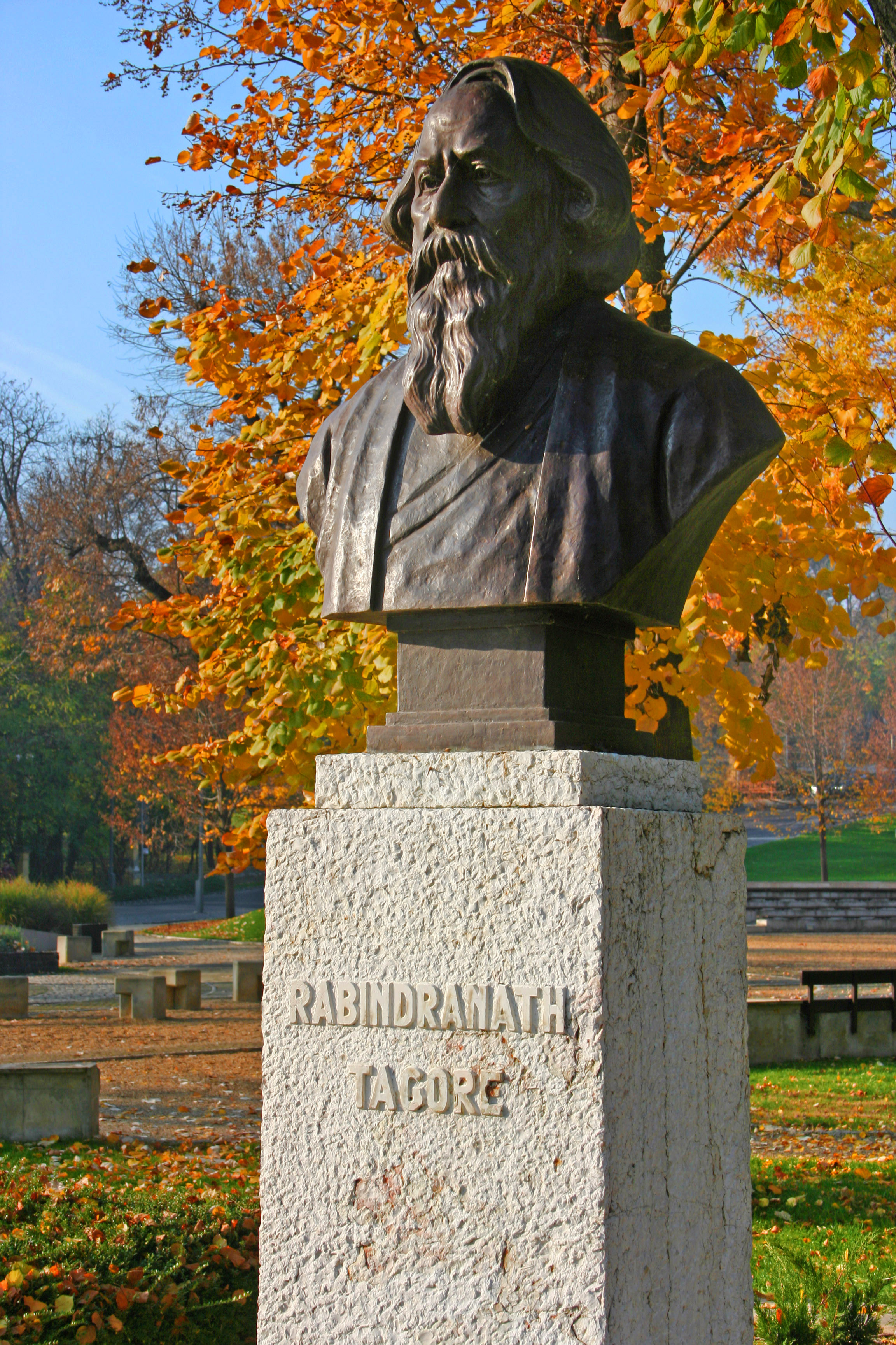 Hungary, Balatonfüred, Rabindranath promenade in autumn - Tagore statue